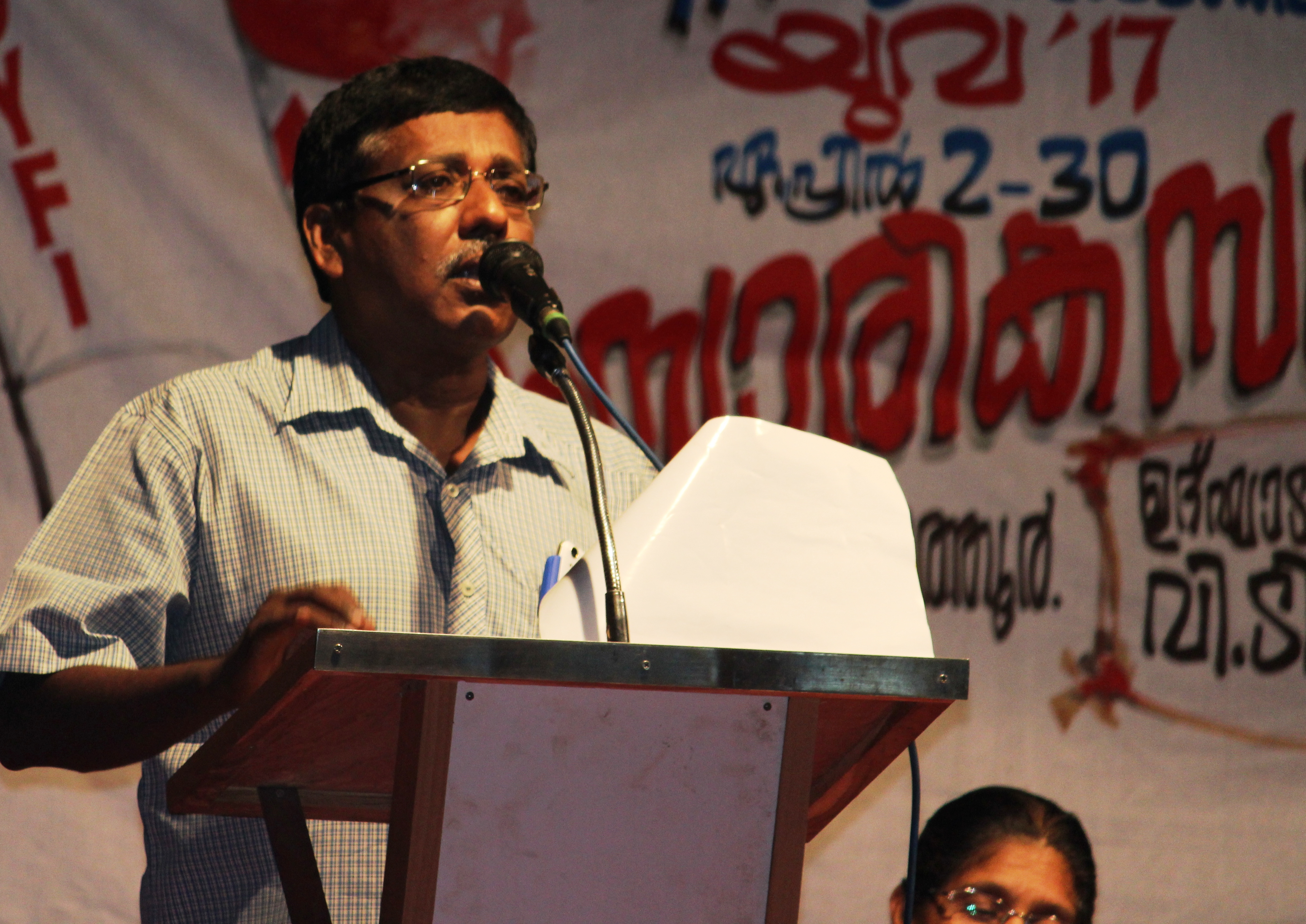 malayalam singer, at Blathur